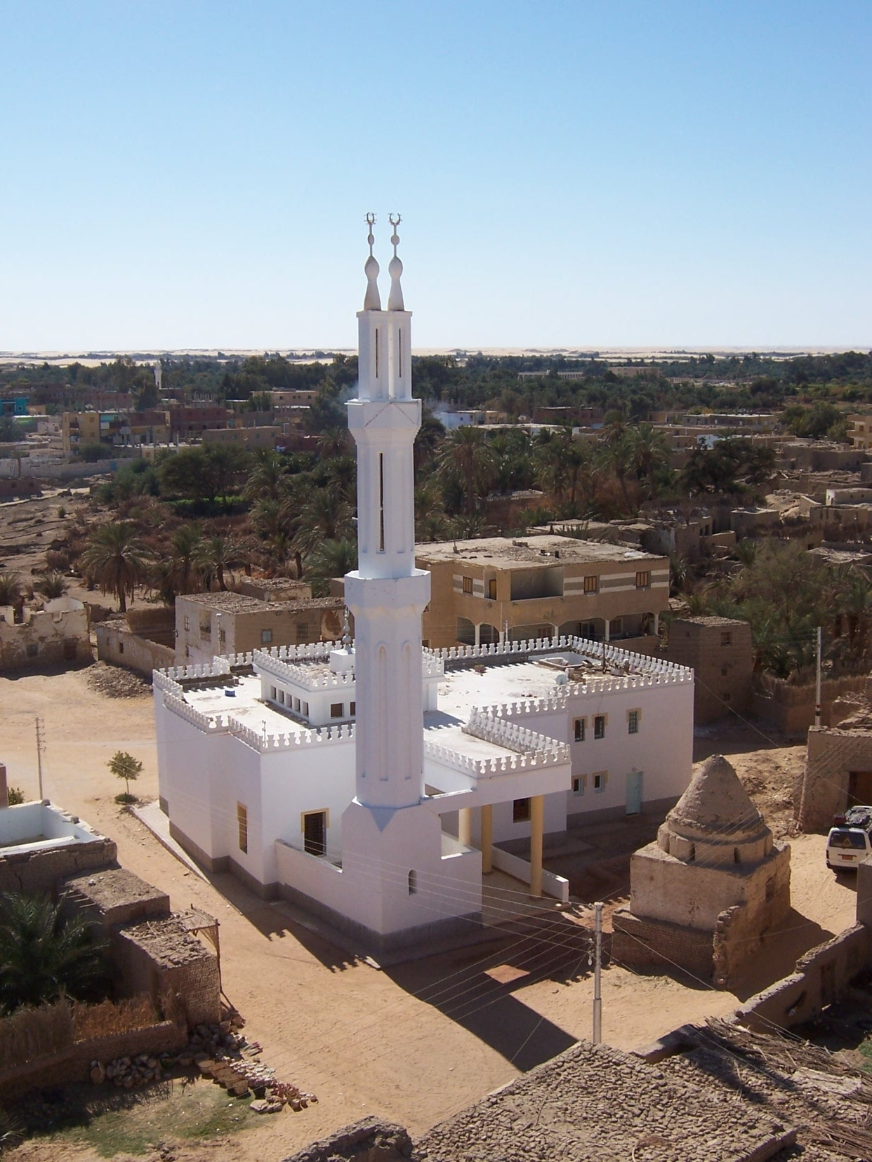 Pictures of the old Ottoman town (and mosque) of Al-Qasr - near Dakhla Oasis, Egypt